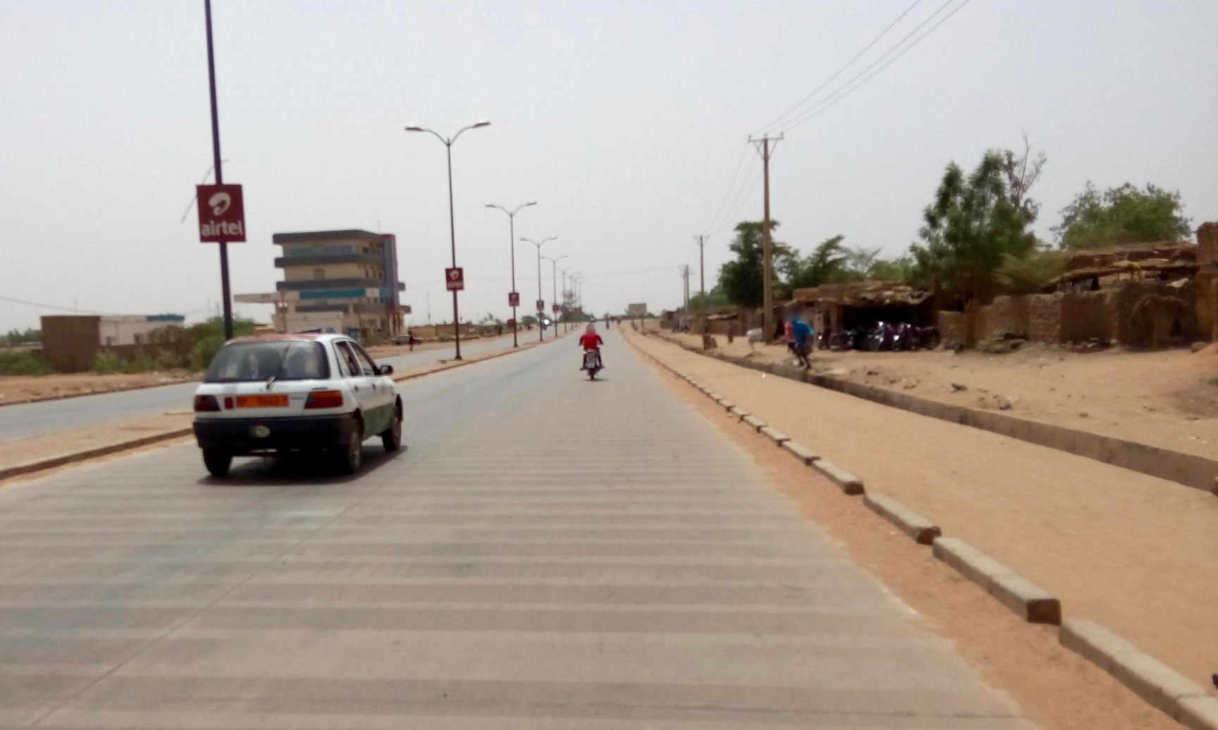 Boulevard du Developpement next to Nialga neighborhood, Kirkissoye, Niamey.